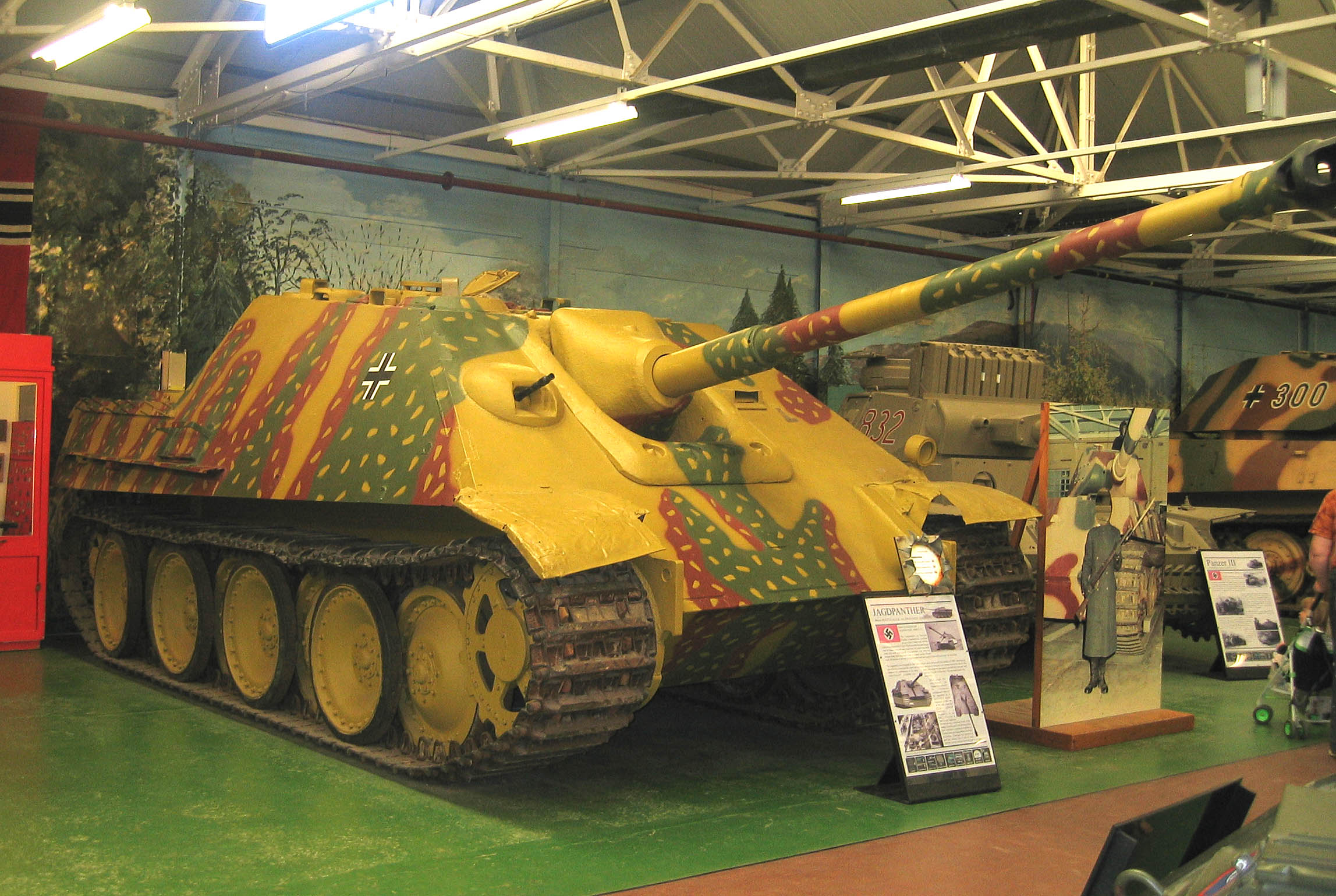 A German Jagdpanther tank at Bovington Tank Museum, Dorset, England.